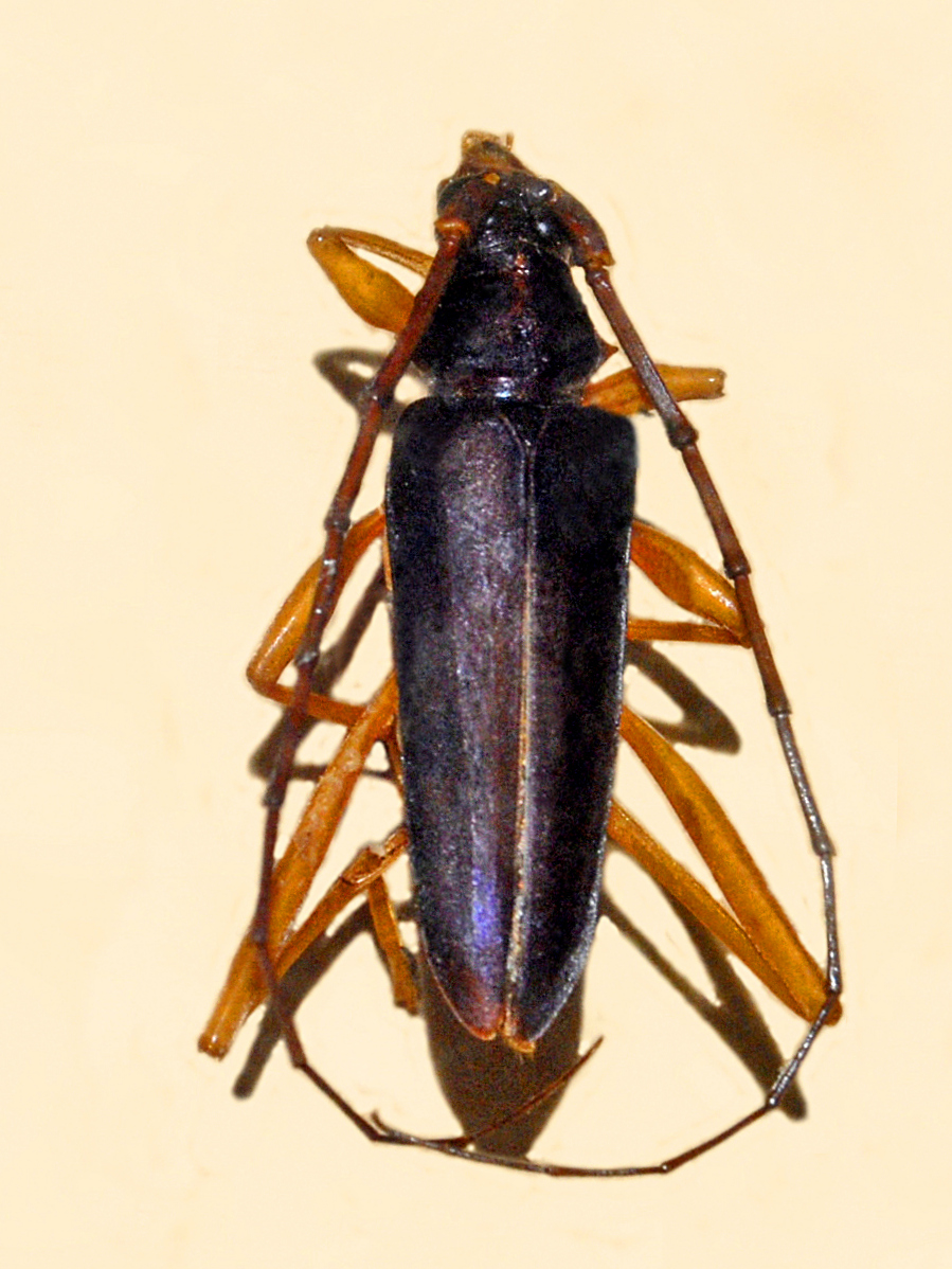 Chromalizus fragrans cranchii from São Tomé and Príncipe. Museum specimen